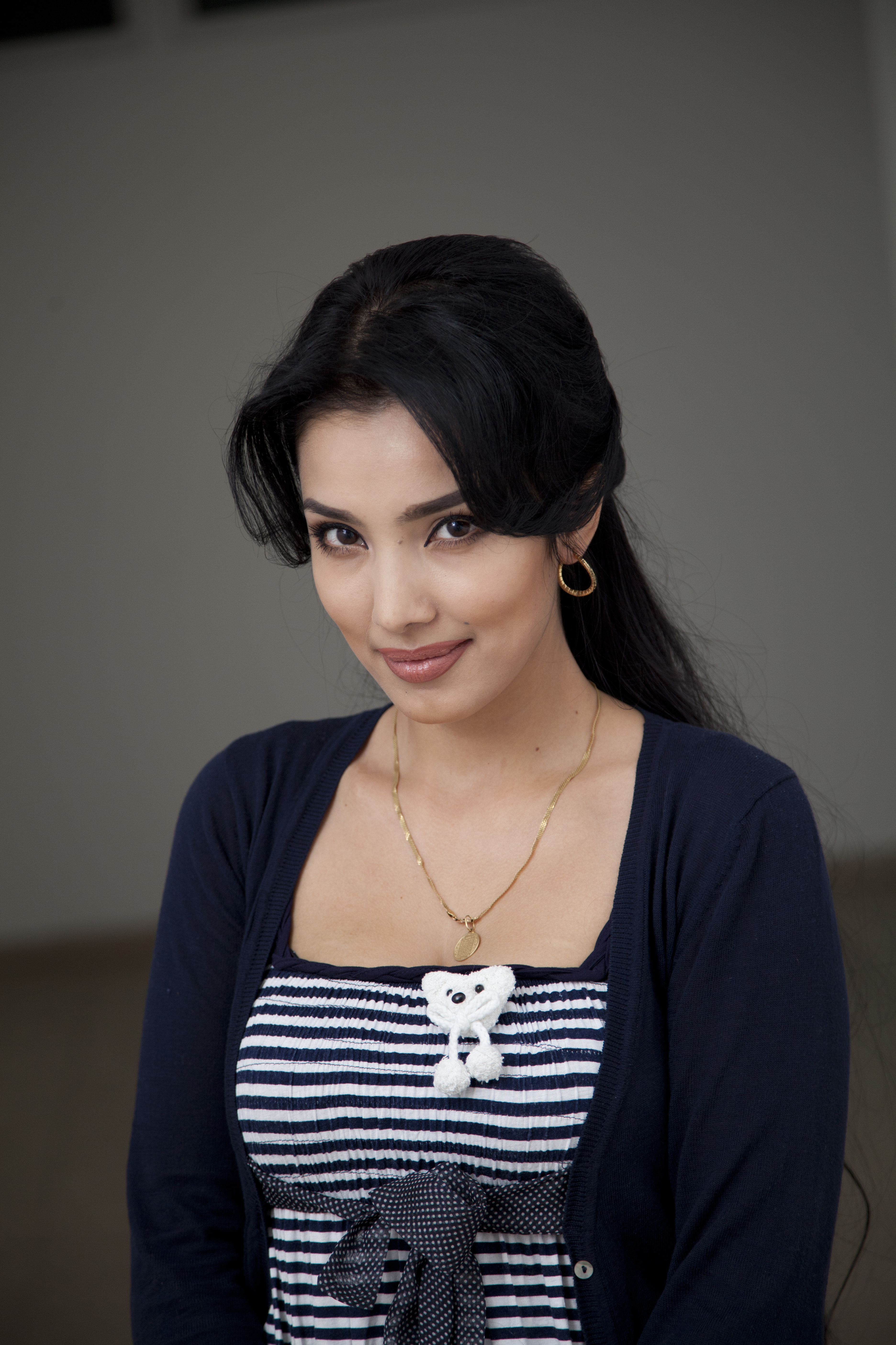 Sitora Farmonova during the shooting of the TV series Общага (The Dorm). Bishkek, 2012.